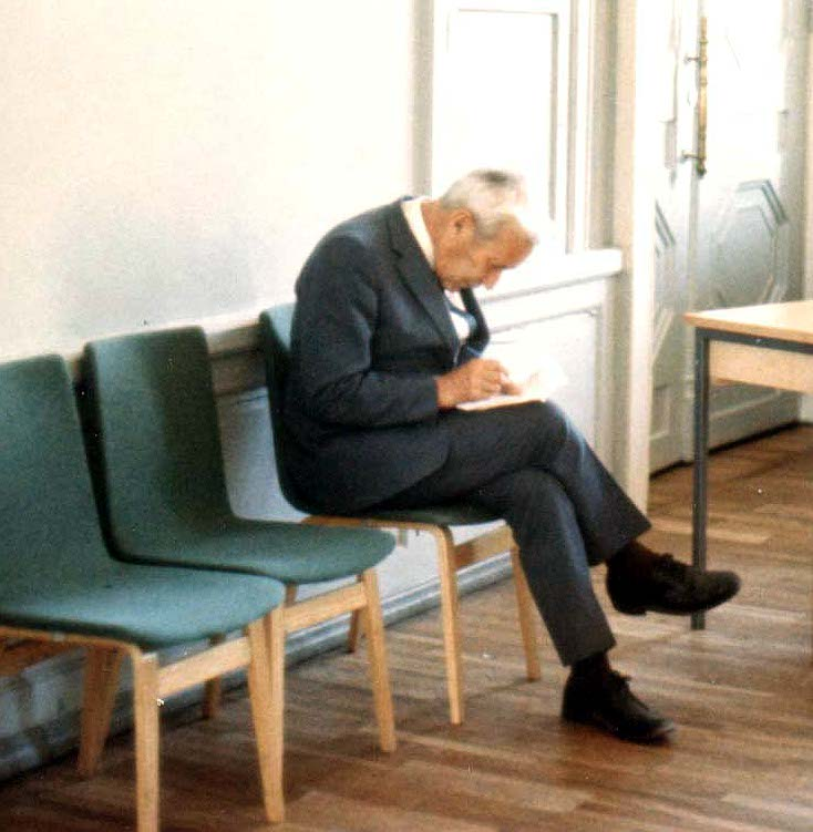 taken at the 1973 Soviet Information Theory Symposium (may not be the exact title) held in Tallinn, Estonian SSR. Kolmogorov works on his talk.